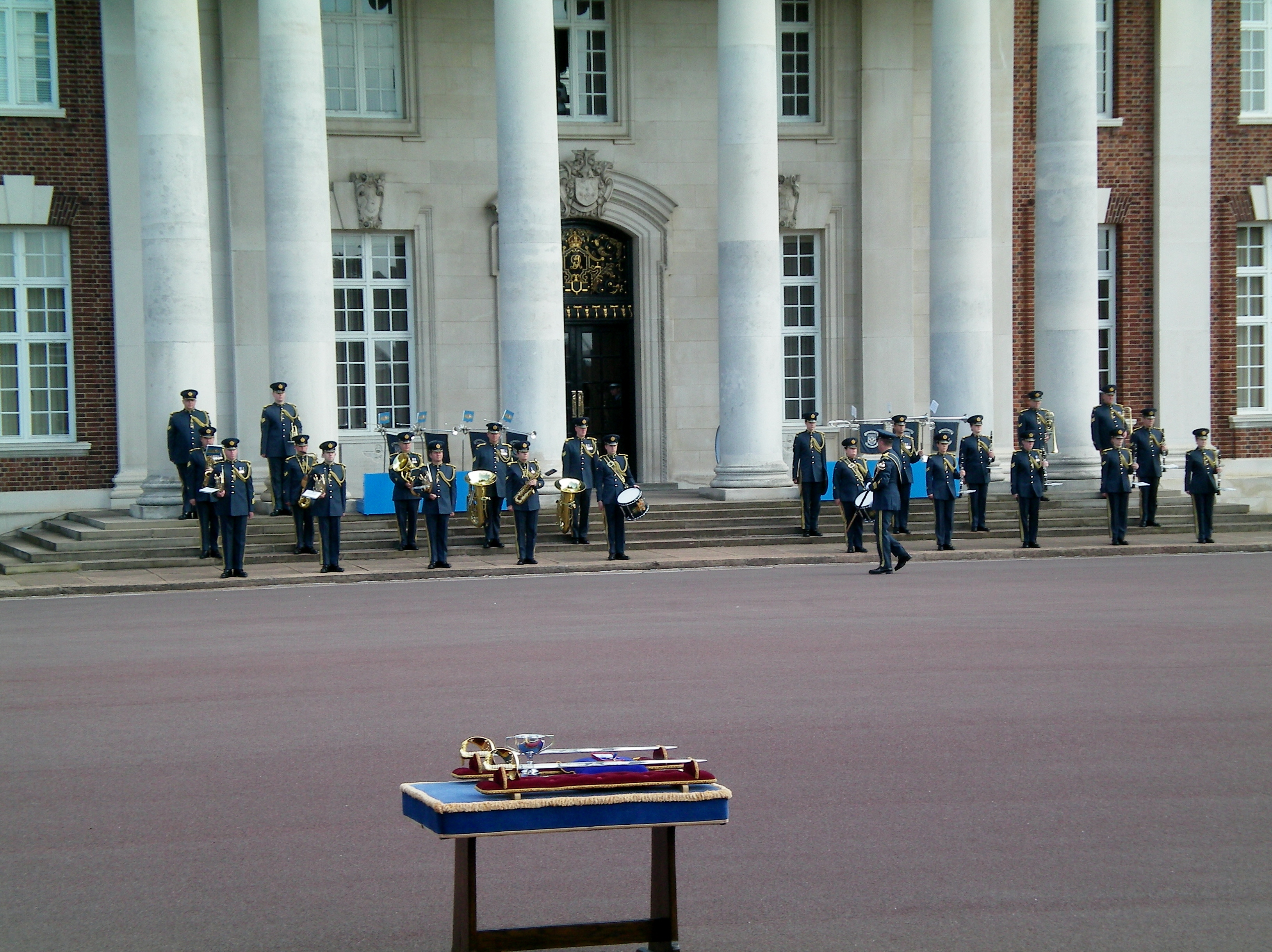 The Band of the Royal Air Force College Cranwell prepares for a graduation parade at the front entrance of College Hall. The foreground table holds swords of honour and other prizes.